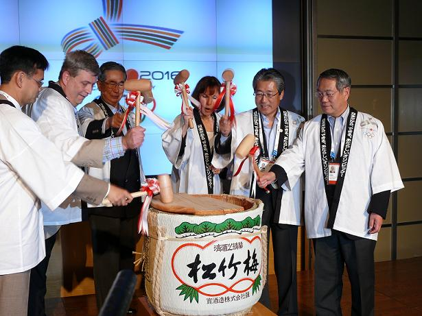 Leaders of the Tokyo bid crack open a barrel of sake with help from members of the media. (ATR / Panasonic:Lumix)